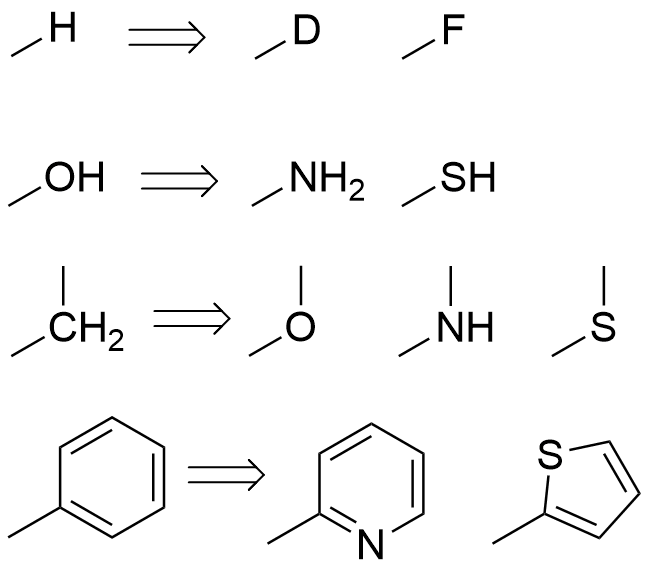 A table of common classical bioisosteres